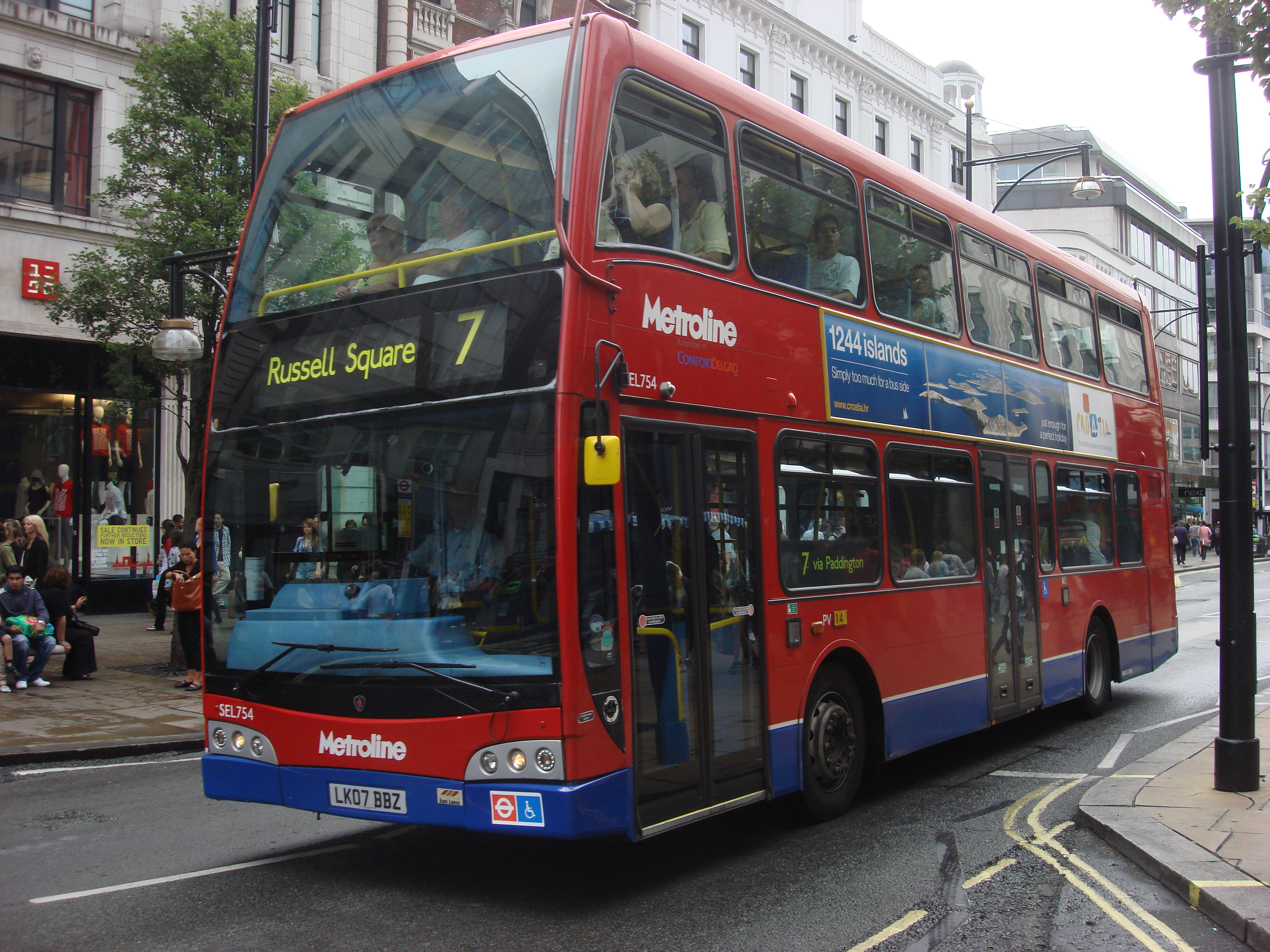 A route 7 London Bus on Oxford Street.